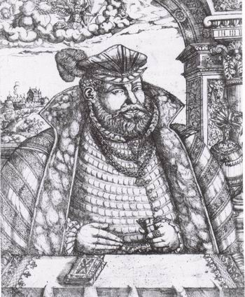 John Frederick II, Duke of Saxony